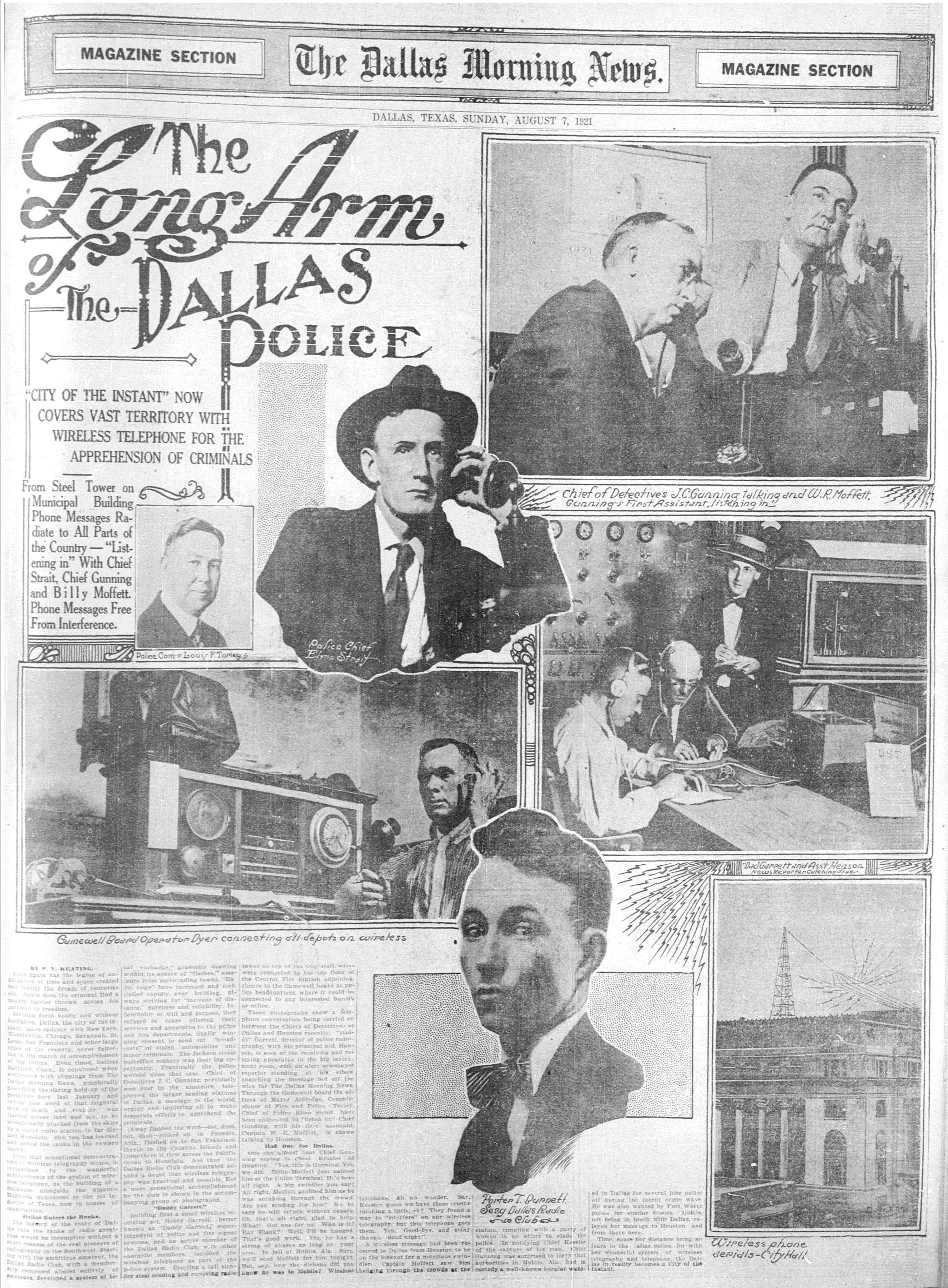 Article that appeared on the front page of the August 7, 1921 Dallas Morning News Sunday Magazine reviewing the radiotelephone station recently installed by the Dallas, Texas police department.